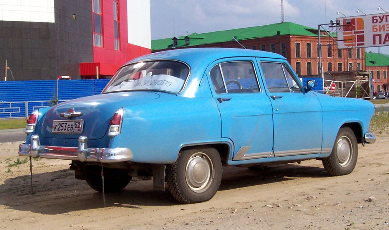 GAZ-M-21I photographed in Nizhny Novgorod, Russia by me.